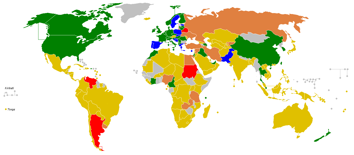 using public domain File:BlankMap-World-large.png and CIA factbook] 2013 data Blue - 15%